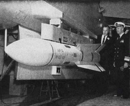 The first XAIM-54A Phoenix air-to-air missile on display in 1966 on the launching rail of a Douglas NA-3A Skywarrior (BuNo 135427).